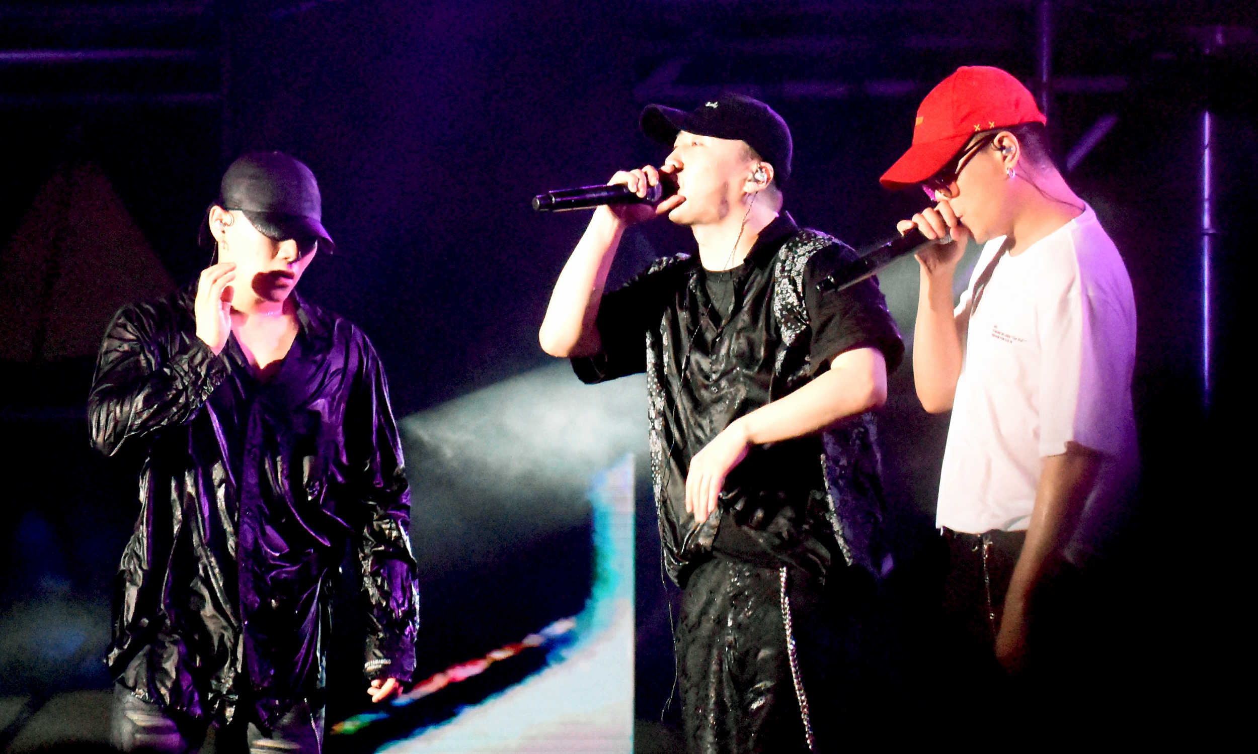 Rhythm Power at the 23rd Busan Sea Festival in Haeundae on August 1, 2018.